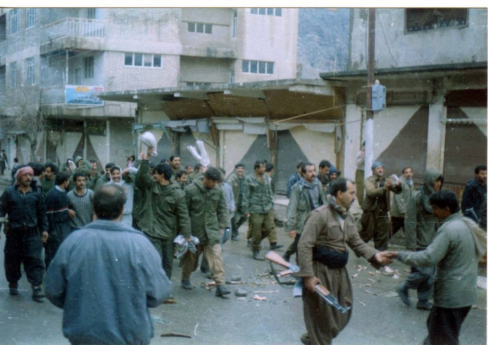 Uprising of Kurdish People in Kurdistan Region - 1991 in Sulaimani